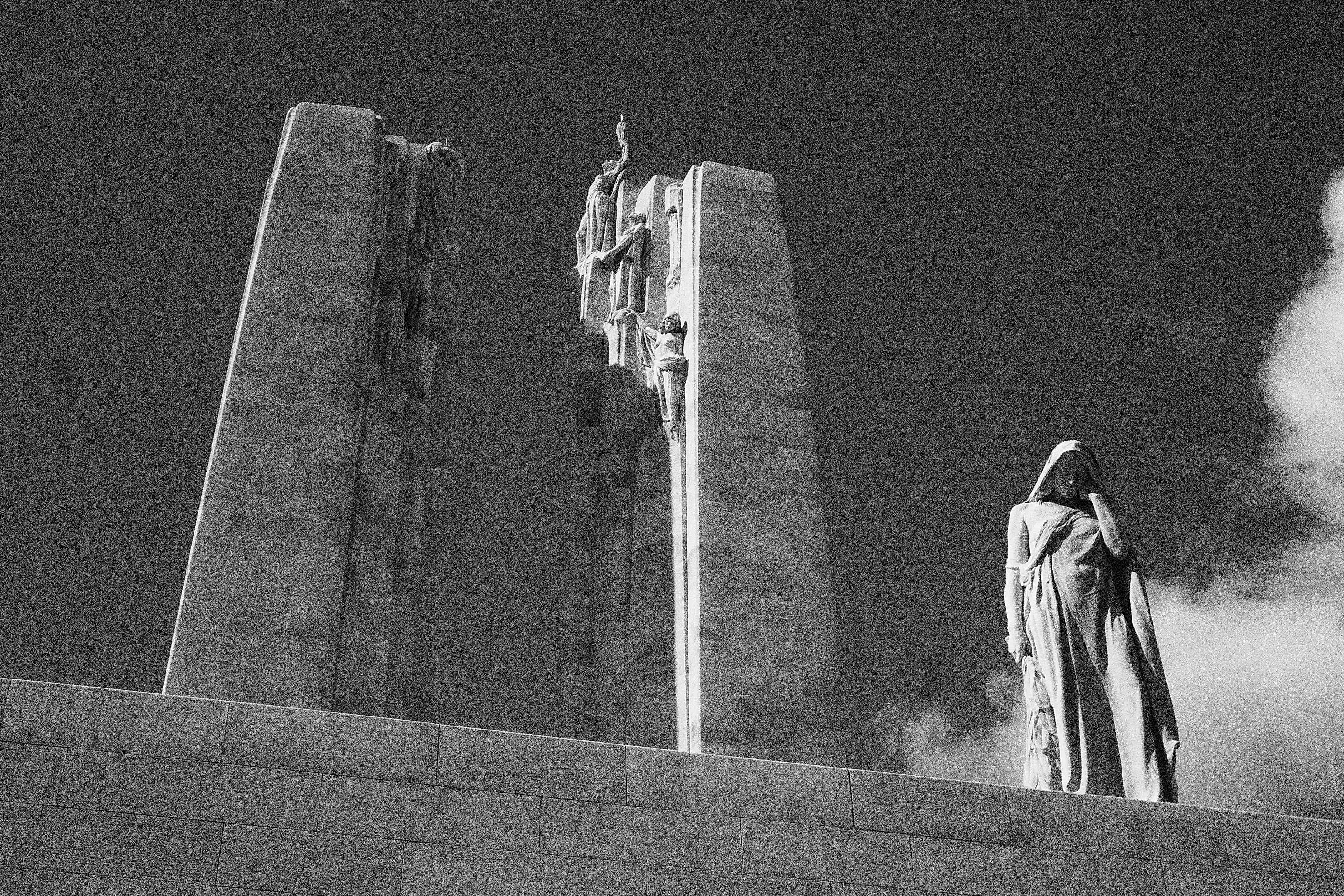 Canadian monument to the fallen of WW1, specifically, the Candian forces that finally took Vimy Ridge in 1916.